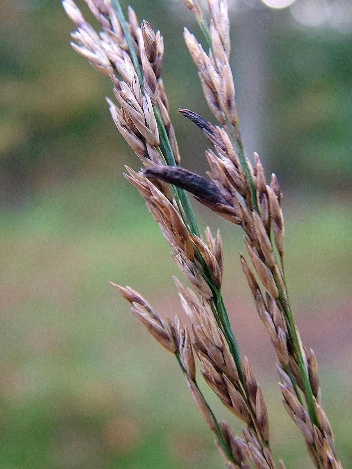 Detail of black ascocarp of Claviceps microcephala, which generally grows on the seeds of Molinia caerulea